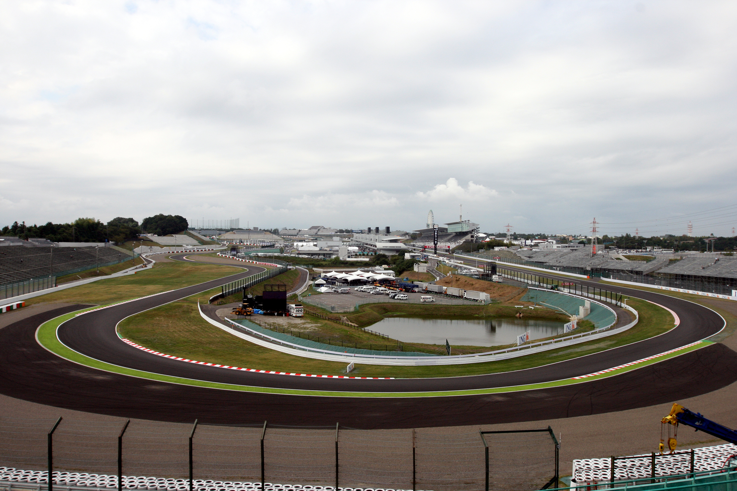 Formula One 2009 Rd.15 Japanese GP: repaved first section of Suzuka Circuit